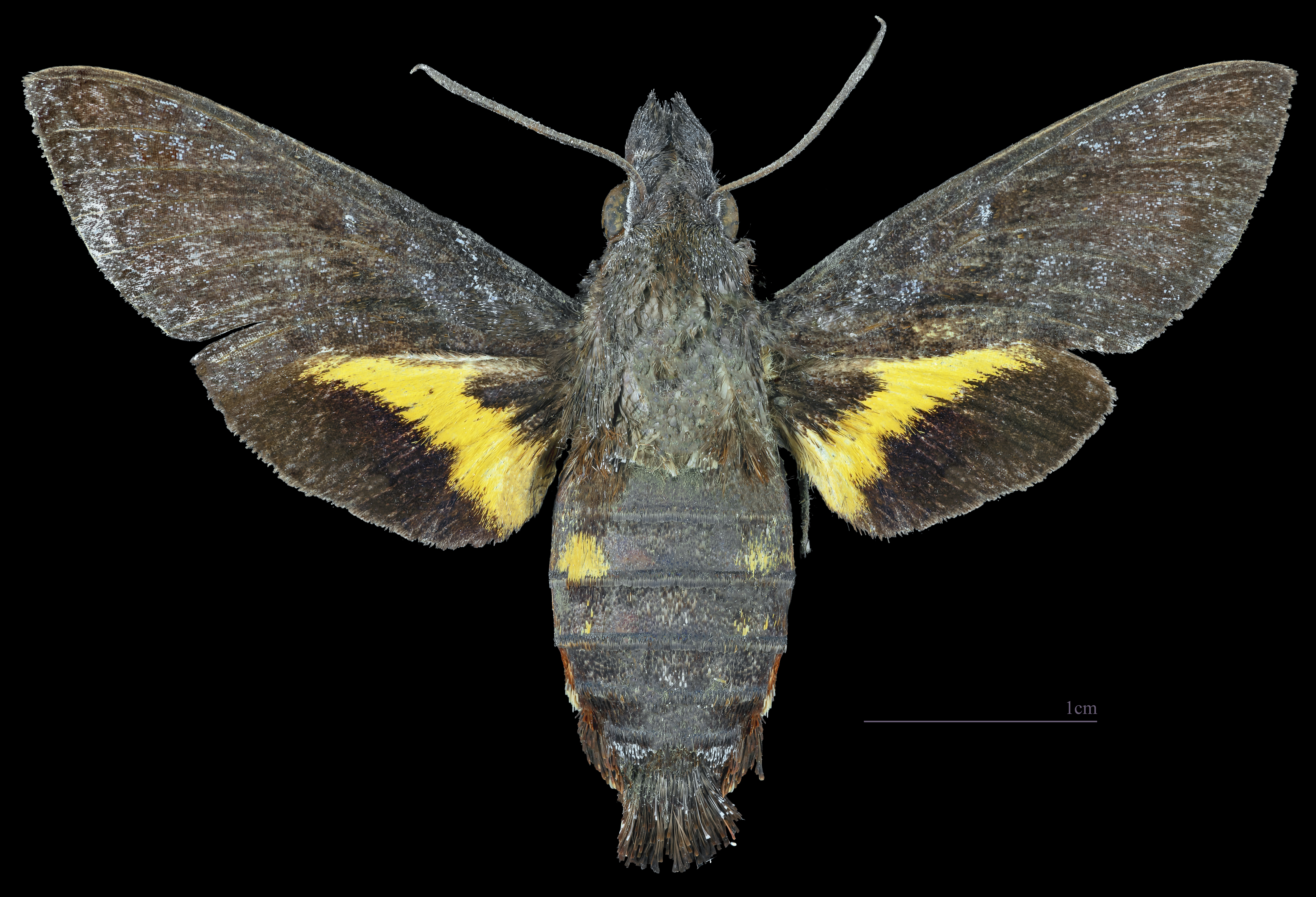 Macroglossum caldum - Dorsal side Collection of the Mathematician Laurent Schwartz